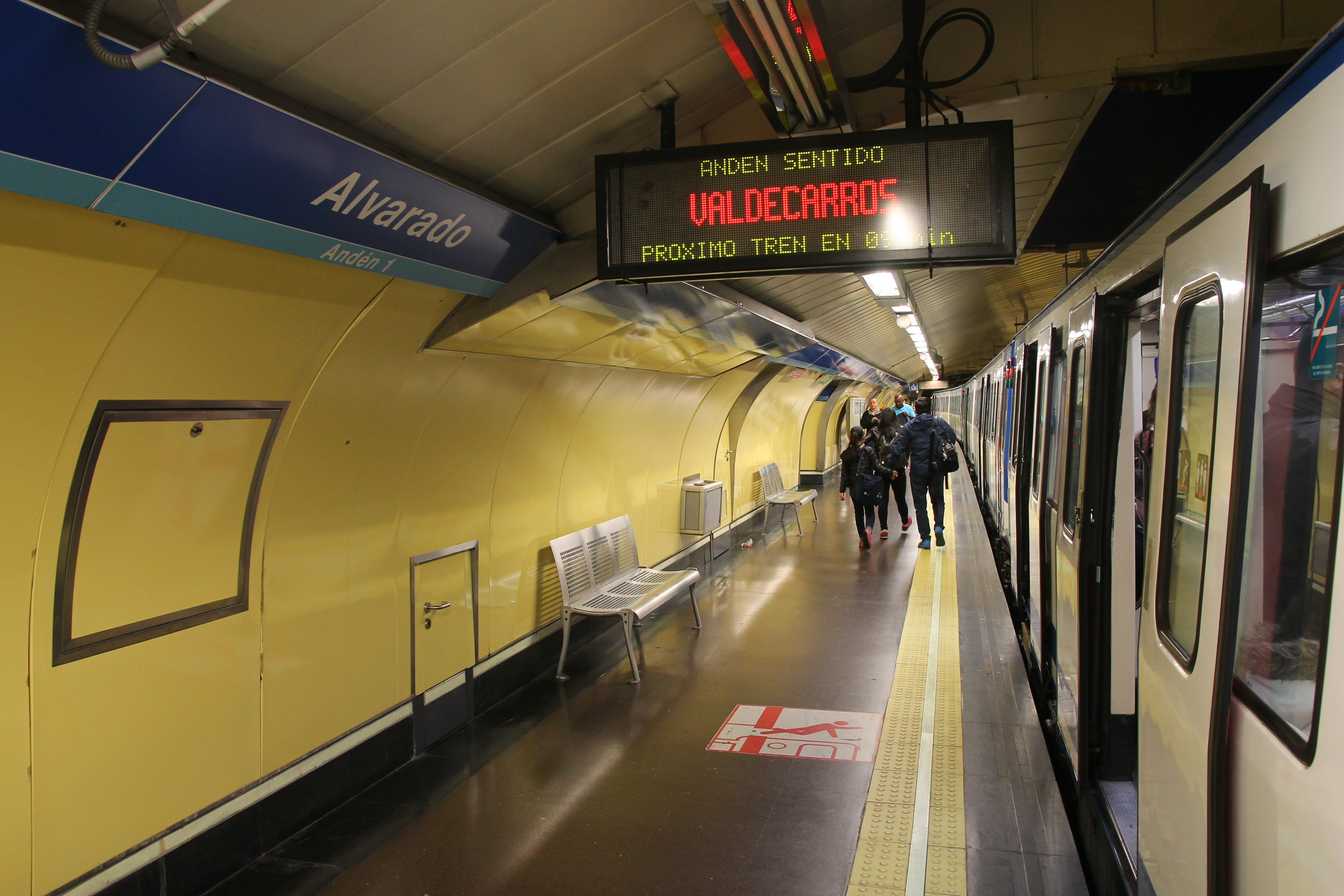 Estación de Alvarado